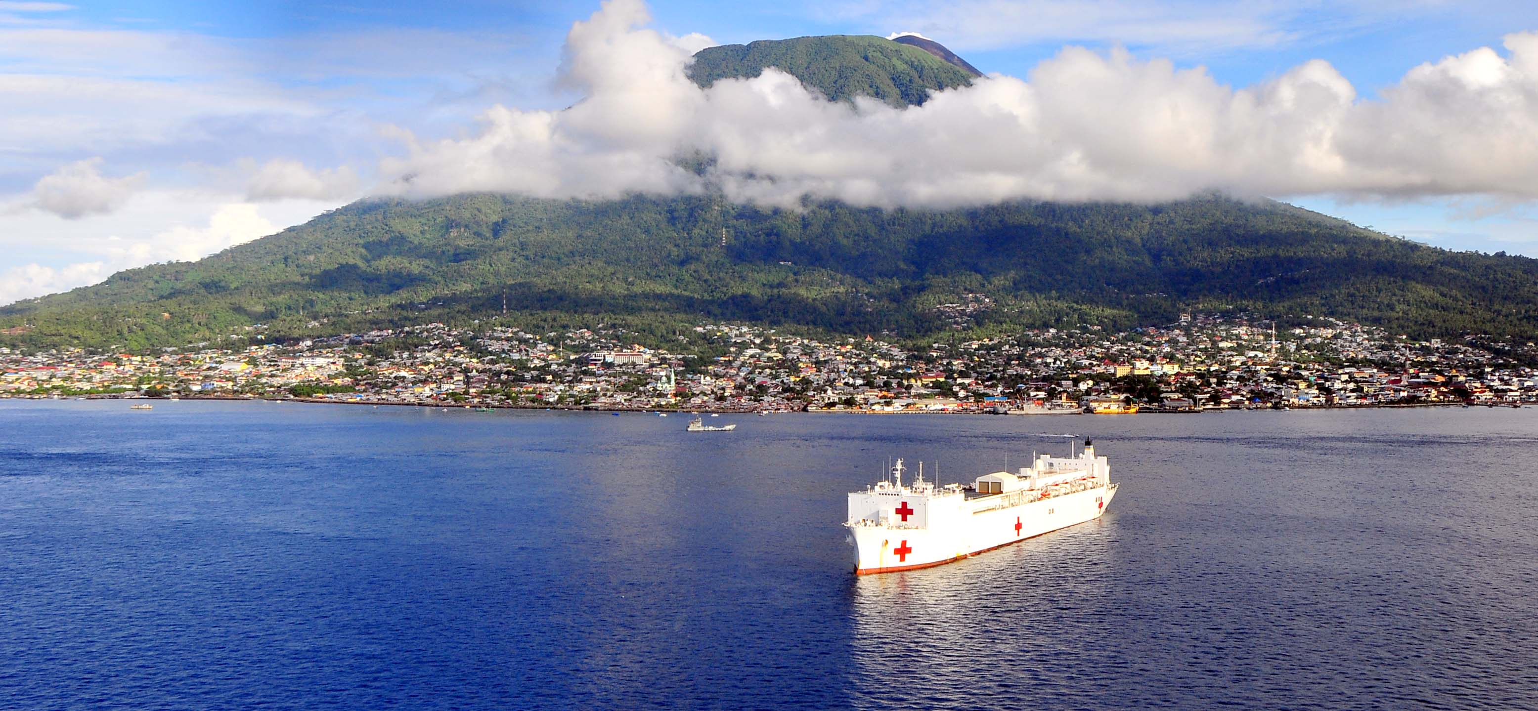 The USNS Mercy floats off the coast of Ambon, Indonesia. The USNS Mercy is on a three-month joint and interagency humanitarian mission to six countries in the South Pacific. (photo by Sgt. Craig Anderson, 807th MDSC Public Affairs)